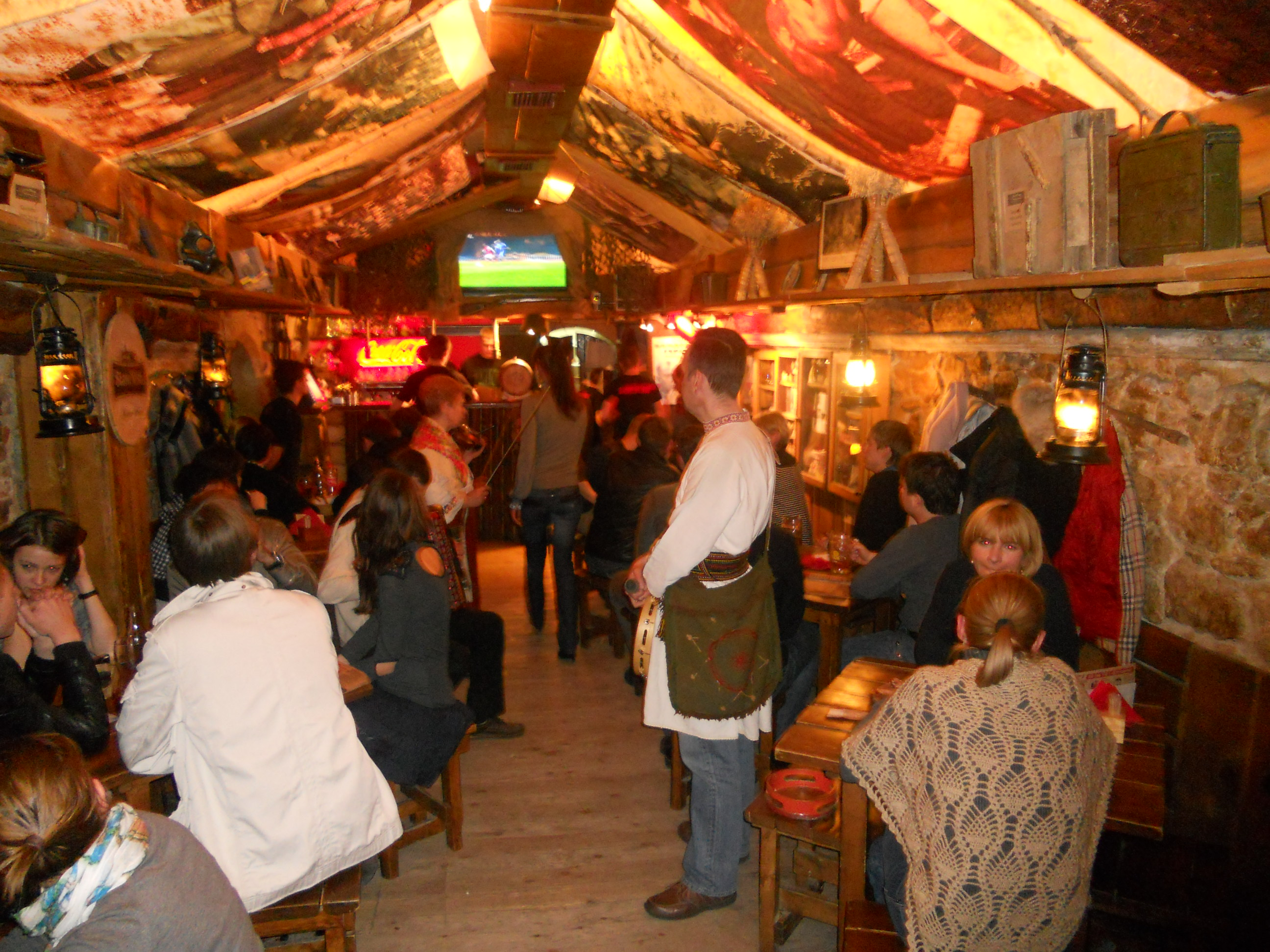 The Kryjivka restaurant, Lviv